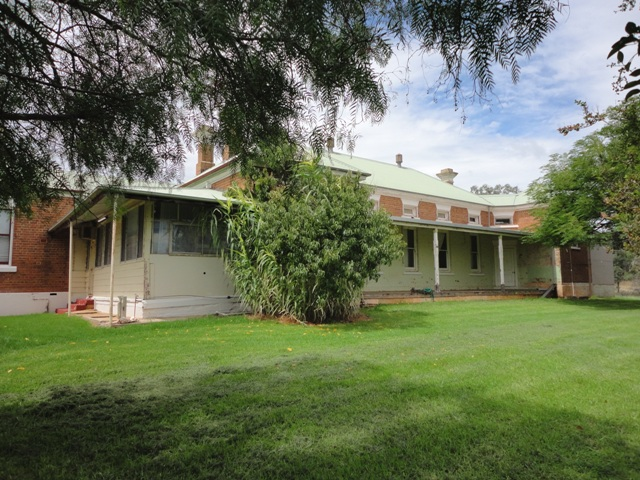 Cootamundra Domestic Training Home for Aboriginal Girls: Former front of the hospital. Front verandah was enclosed as a dormitory. The original carraigeway and entry to the hospital was from this side.